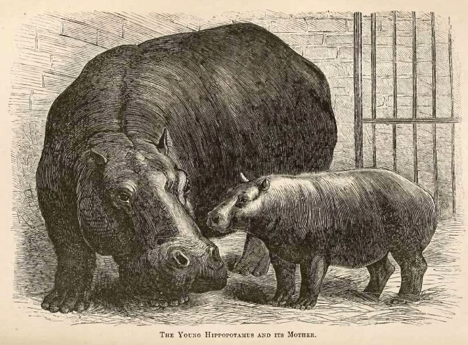 An engraving of Adhela and Guy Fawkes from Popular Scientist Magazine 1873. Adhela was the partner of Obaysch, the first hippopotamus seen in England since prehistoric times, and Guy Fawkes was their first baby which survived.